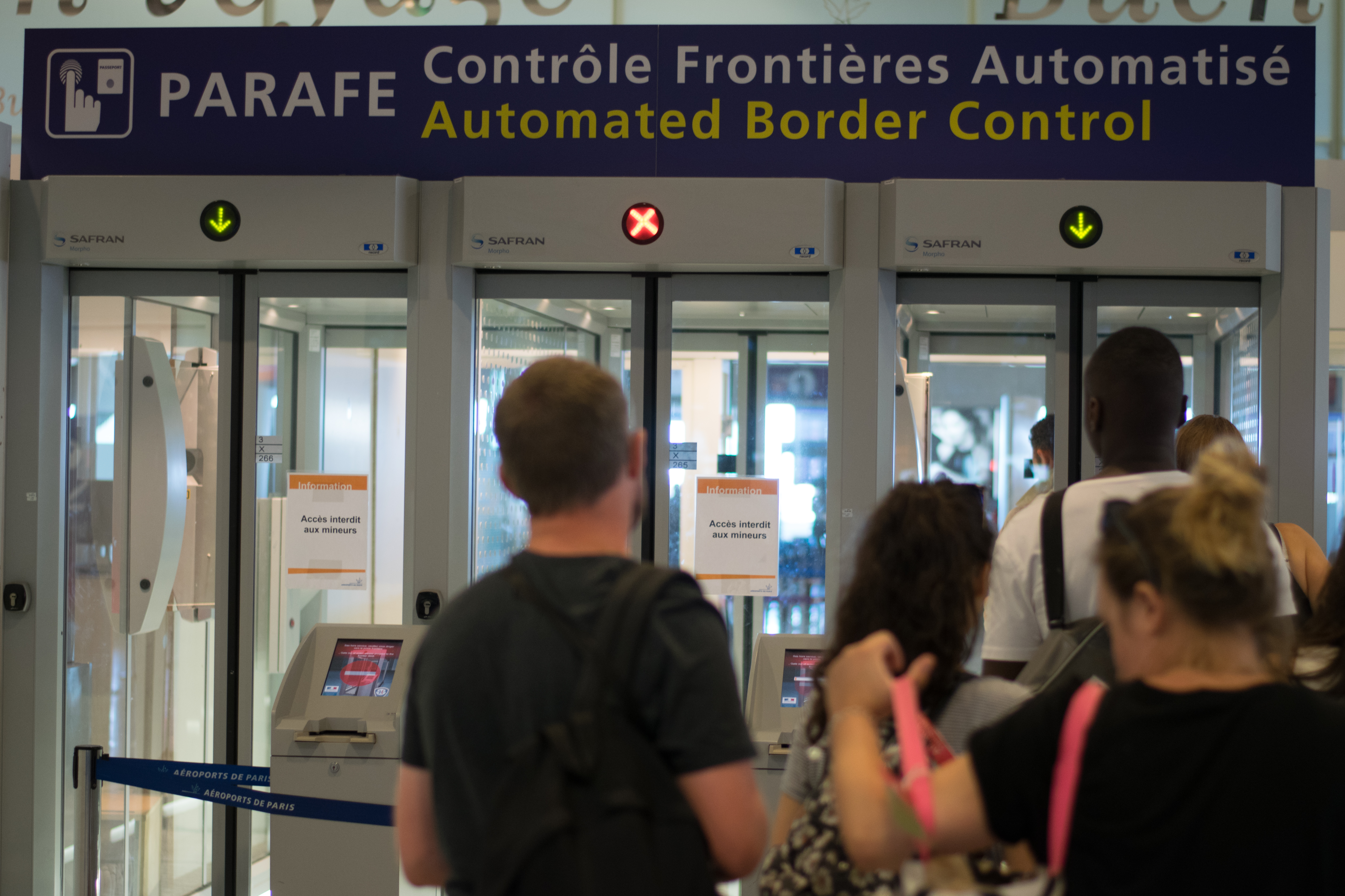 The PARAFE at the French border, in the Charles de Gaulle Airport (Paris, France).